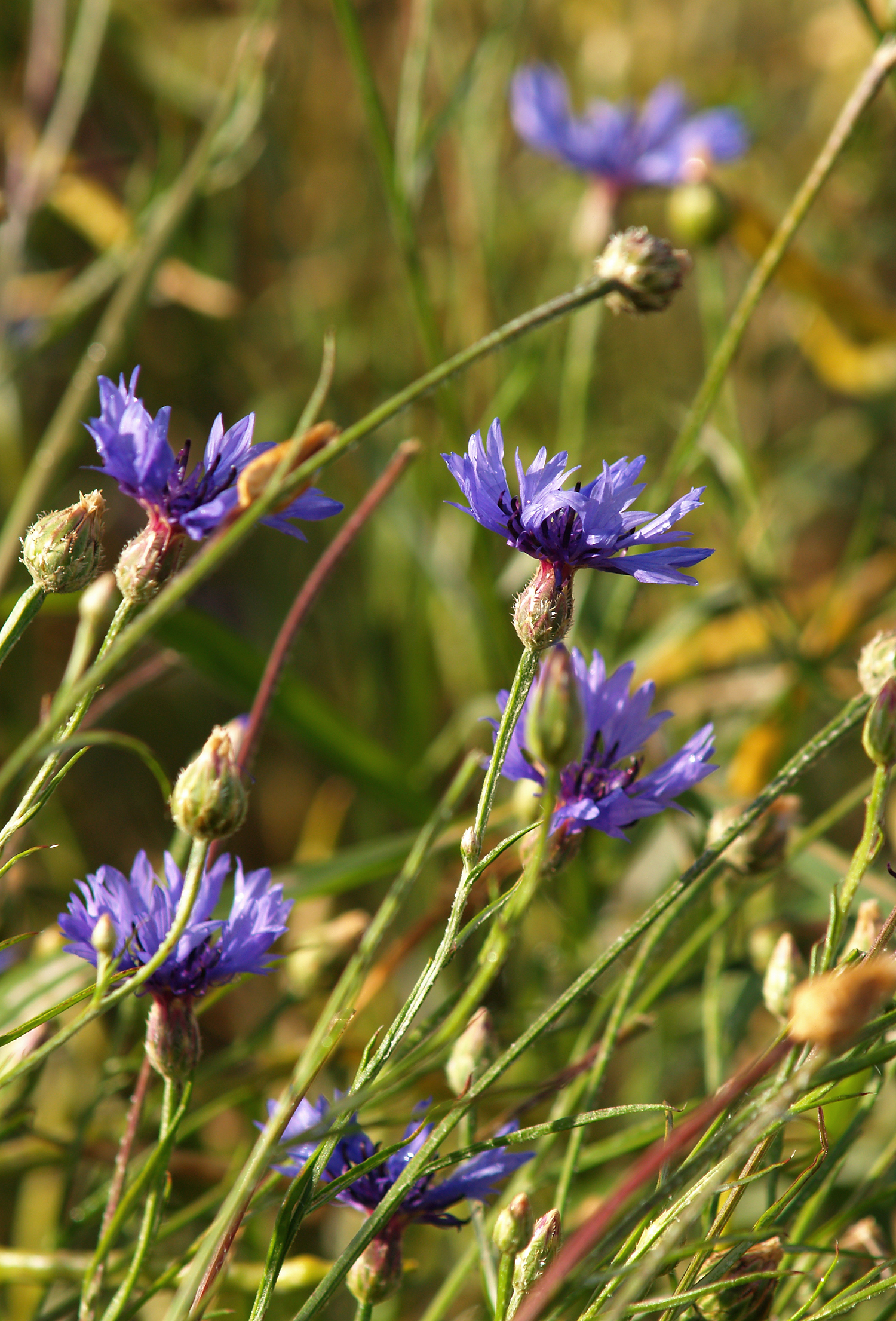 Cornflower (Centaurea cyanus), Chemnitz, Germany